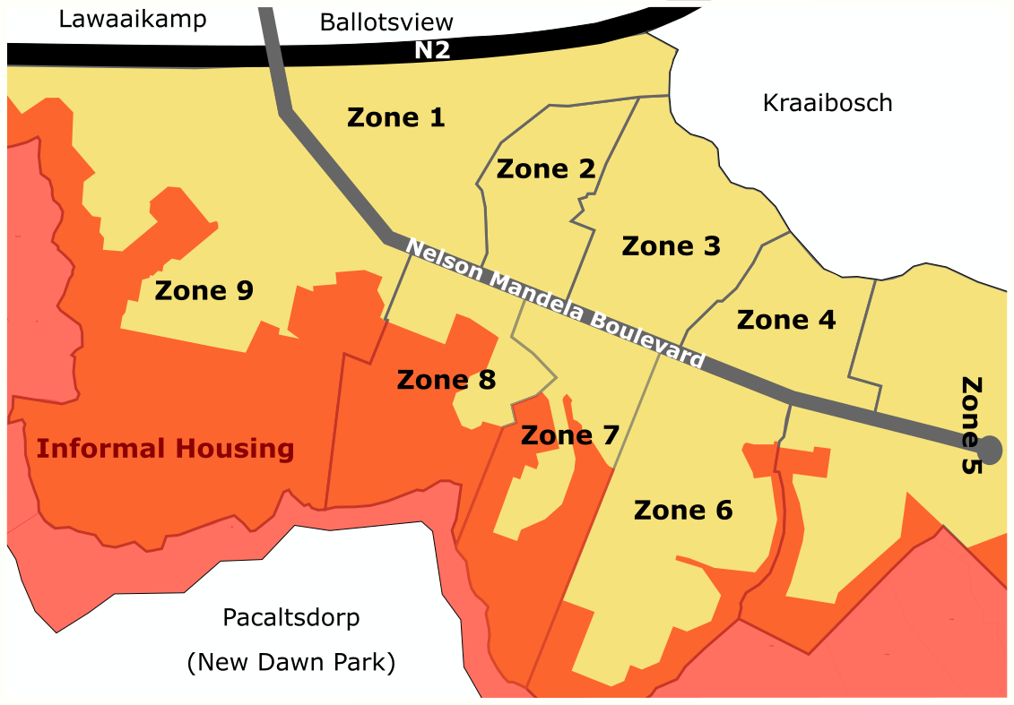 This is a diagram showing the zones of Thembalethu and the informal housing linked to the township. This diagram was drawn with reference to a George Municipality Spatial Plan Map.